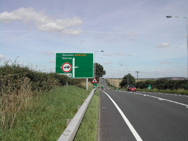 The A614 near Haywood Oaks, Nottinghamshire, England.